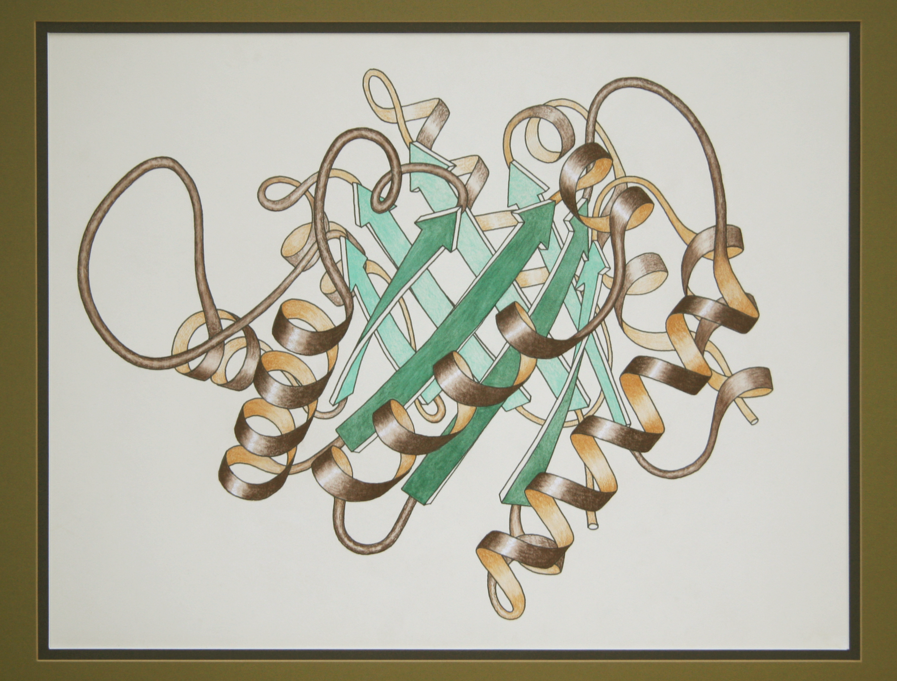 Ribbon schematic (hand drawn & colored, in 1981) of the 3D structure of the protein triose phosphate isomerase. The barrel of 8 beta-strands is shown by green arrows and the 8 alpha-helices as brown spirals. By Jane Richardson.